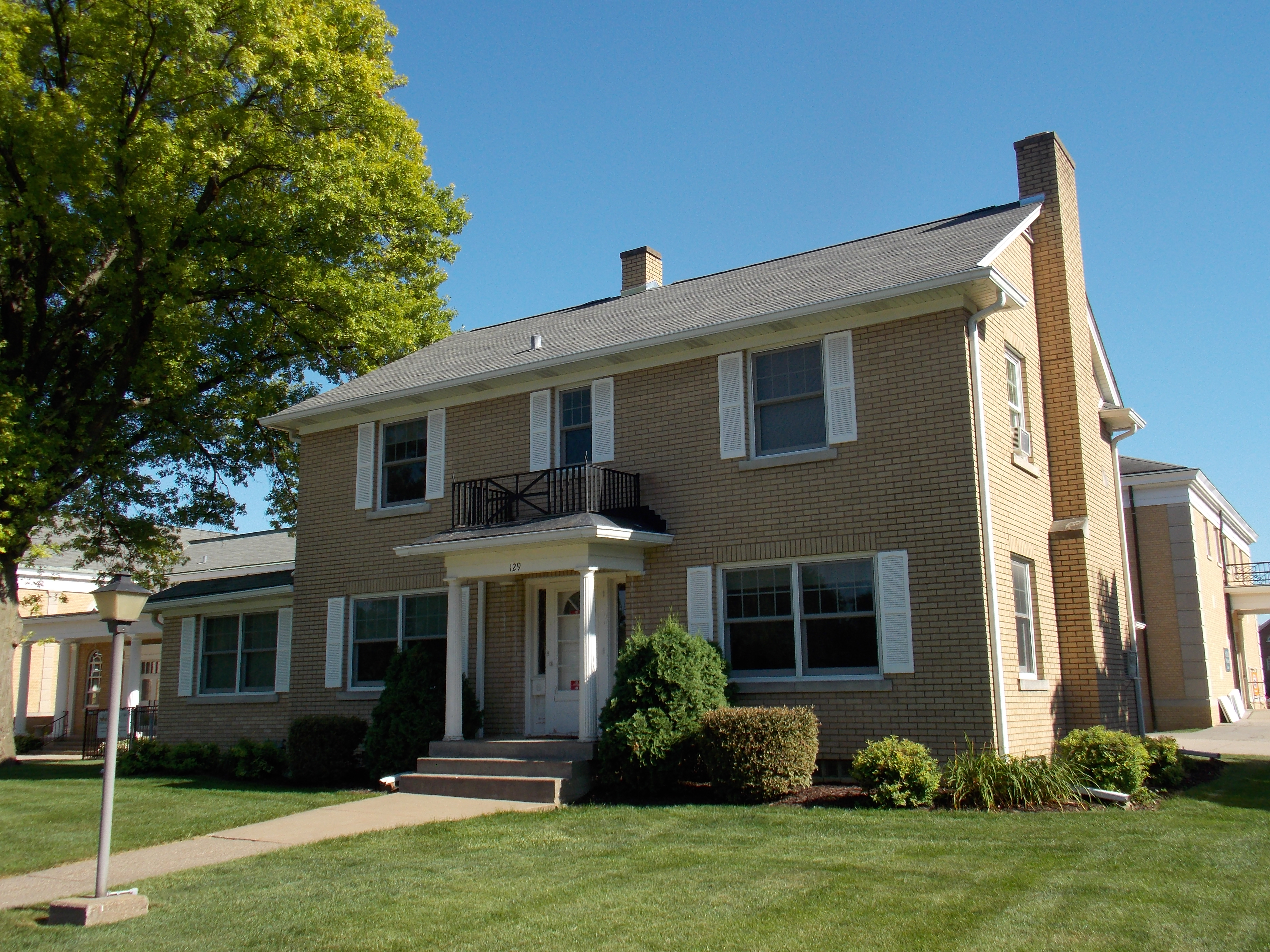 The house at 129 W. Lombard Street is a contributing property in the Vander Veer Park Historic District in Davenport, Iowa. It is now a part of the St. Paul Lutheran Church complex.